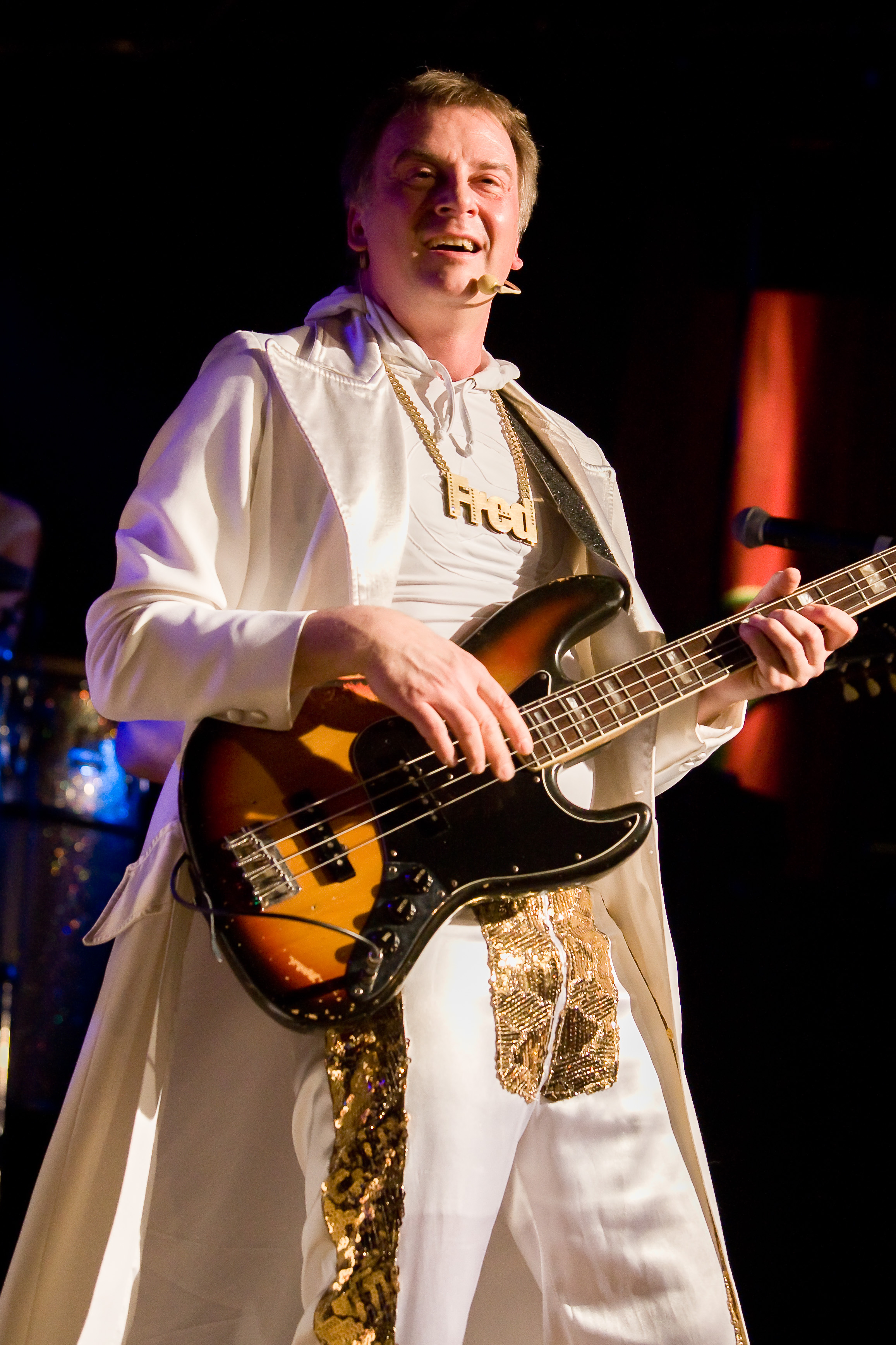 The German TV producer and comedian Ralf Günther in the role of band leader and bass player (alias “Fred Kellner”) of “Fred Kellner und die famosen Soulsisters” at music club “Kantine”, Colgne